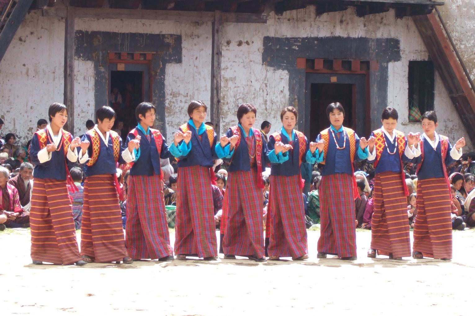 Bhutanese Girls in National Dress - taken at Gangteng Gonpa, Phobjika, Bhutan 0n 2 October 2006